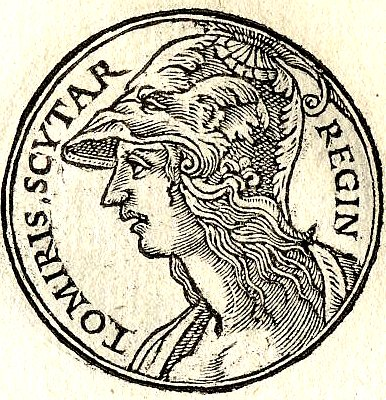 Tomyris was a queen who reigned over the Massagetae, an Iranic people of Central Asia east of the Caspian Sea, at approximately 530 B.C.